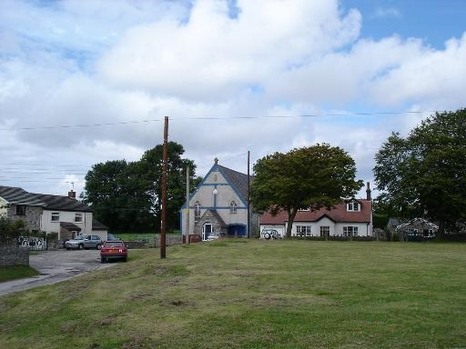 Brynford Village Green. Cottages and church across the village green at Brynford